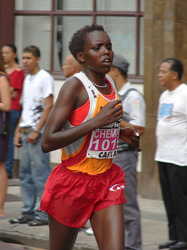 Chemutai Rionotukei running in the 2007 Saint Silvestre Road Race